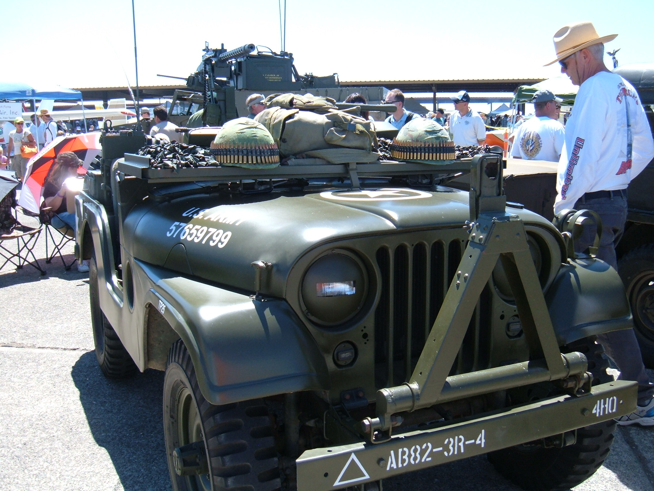 Jeep M38A1, Vietnam War configuration at the Wings over Wine Country 2007 air show at the Charles M. Schulz - Sonoma County Airport in Sonoma County, California.